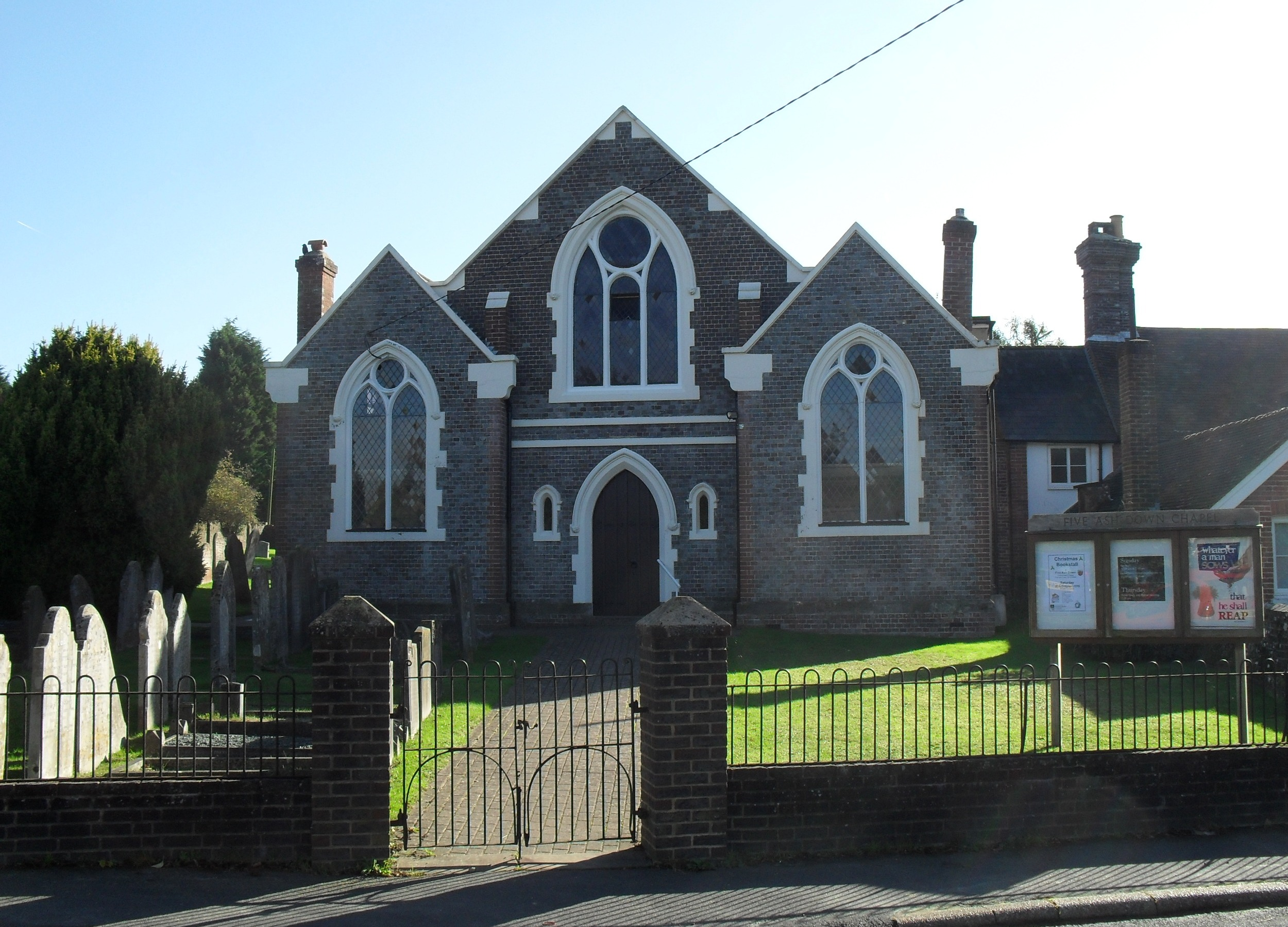 Five Ash Down Independent Chapel, Five Ash Down, Wealden, East Sussex, England. A chapel founded in about 1784 and rebuilt in 1870; originally Independent Calvinistic, it now has a Reformed (Calvinist) Evangelical character.